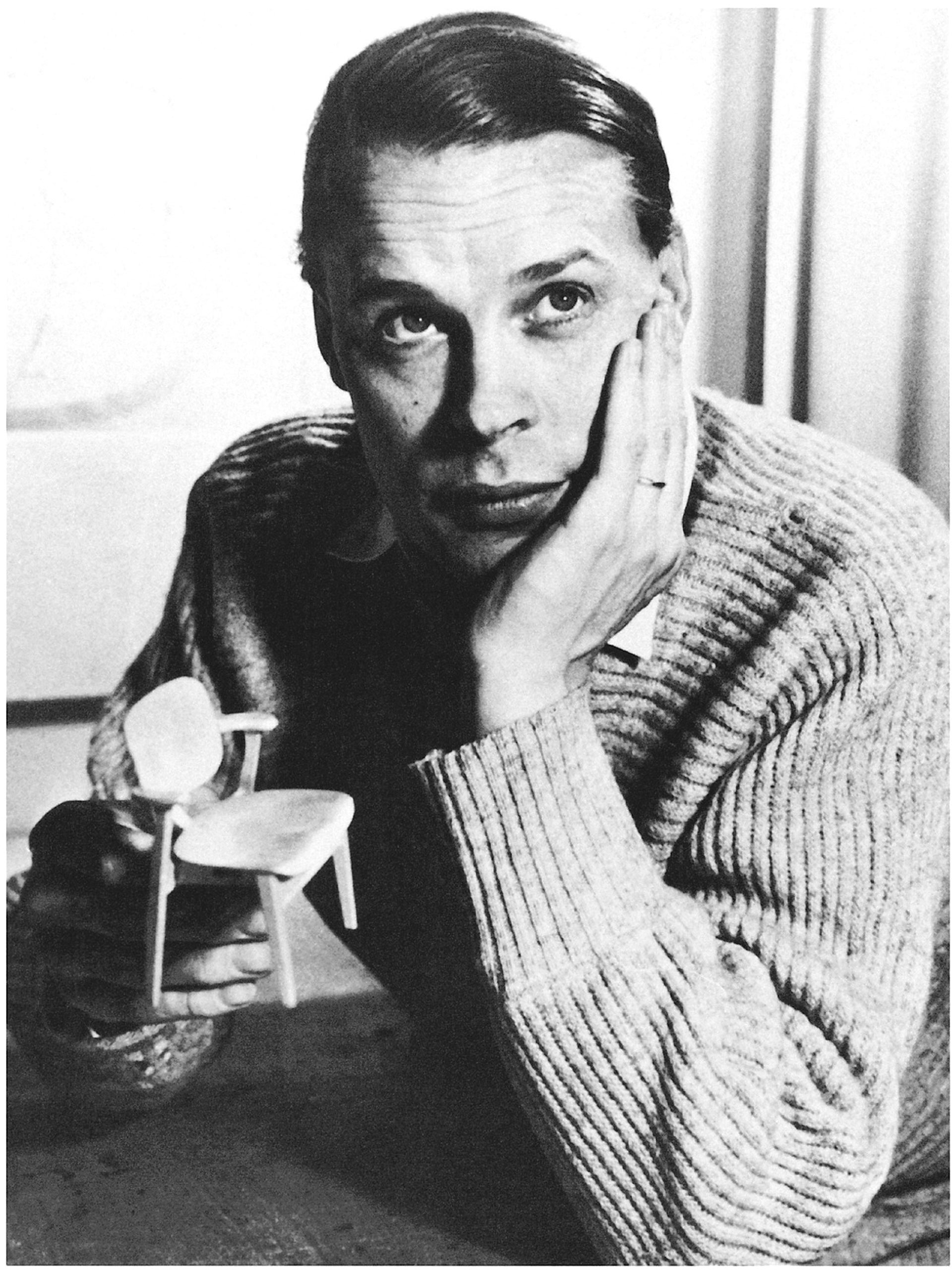 Photograph of the Finnish designer Ilmari Tapiovaara (1914–1999).